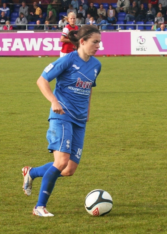 Birmingham City Ladies vs Arsenal Ladies, 7th October 2012